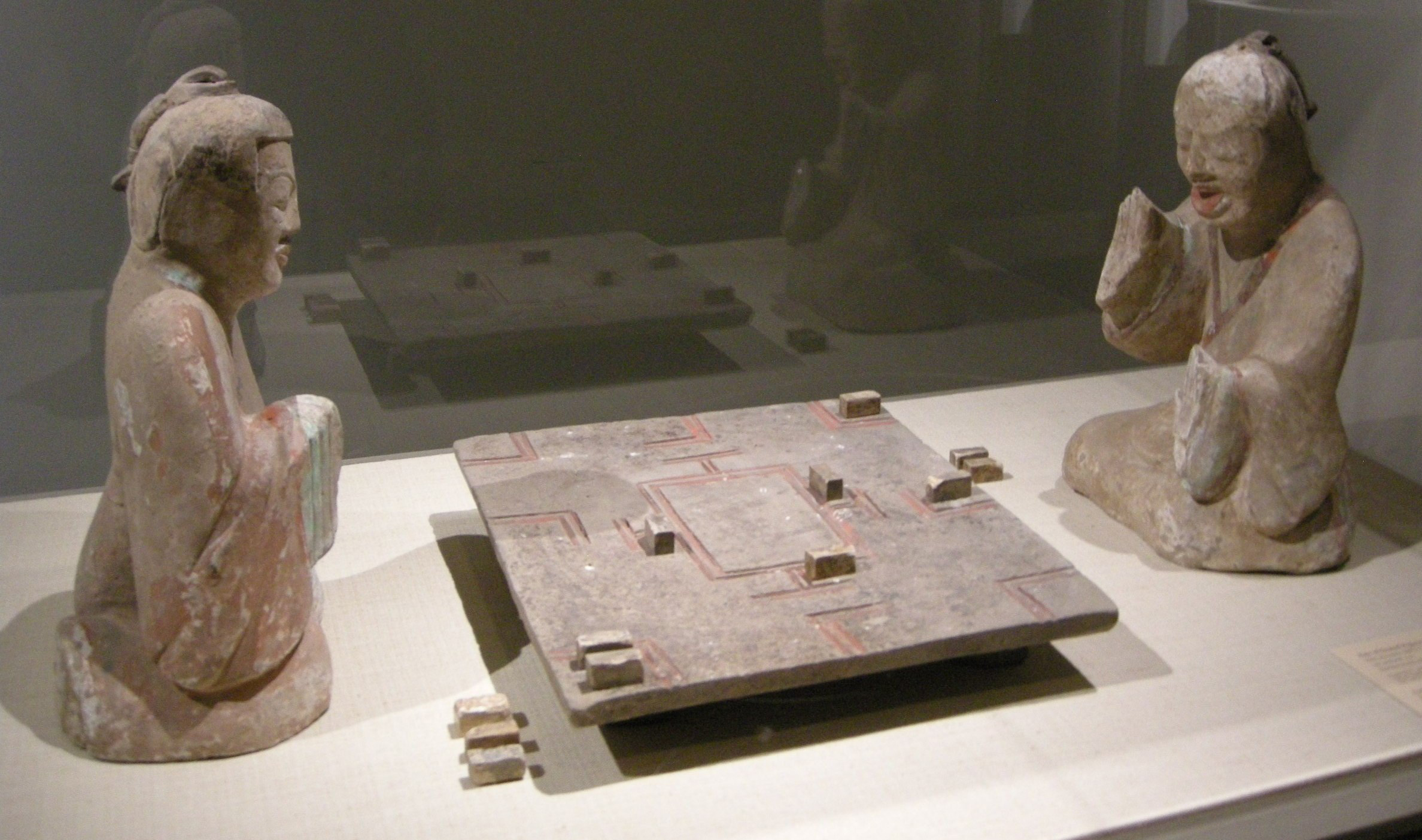 Met, Earthenware figures playing liubo, Han Dynasty